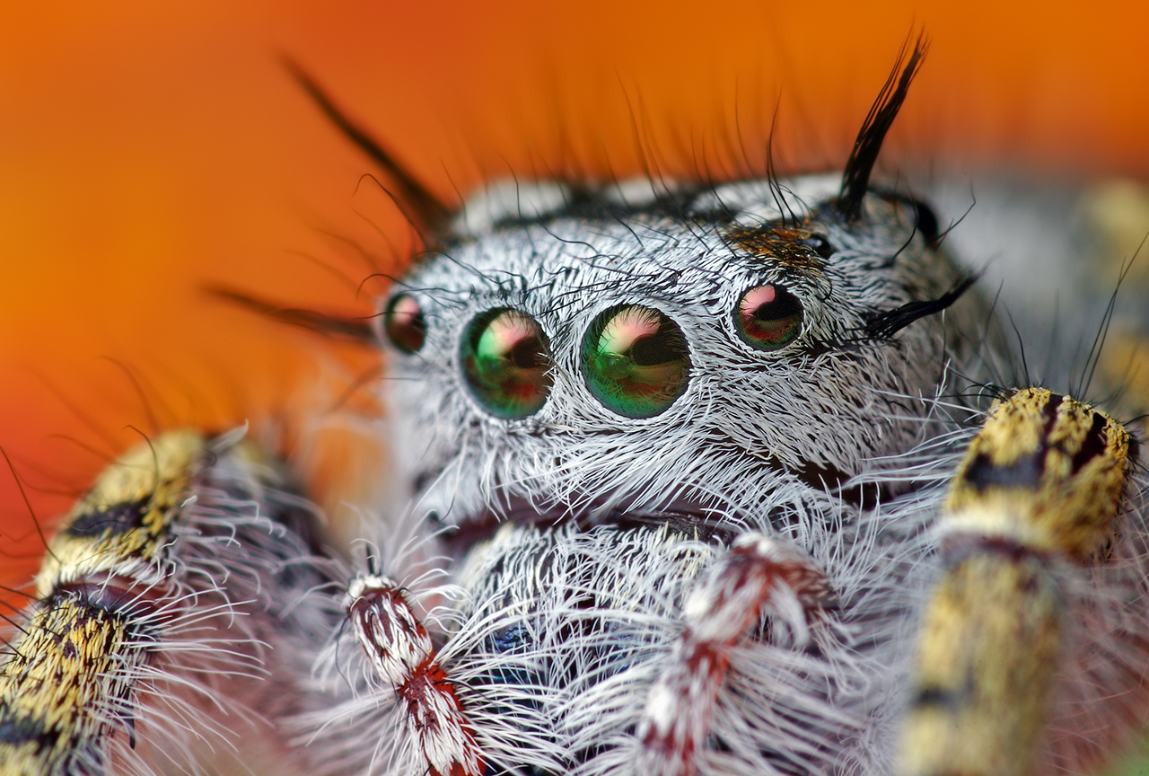 Adult female Phidippus mystaceus. Full frame (roughly) at about 4:1 or so.